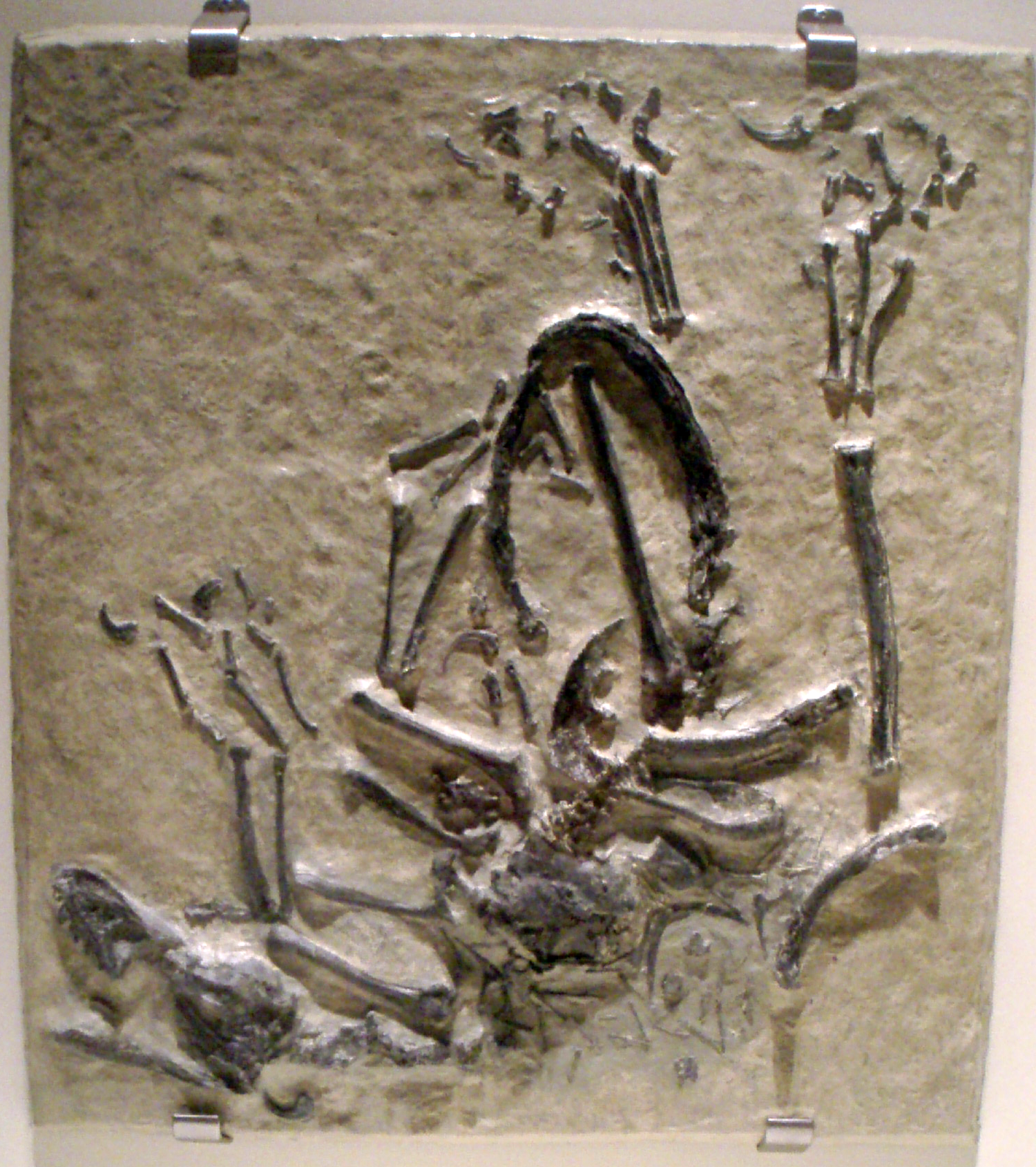 Bambiraptor feinbergi, on display at the Royal Ontario Museum, Toronto.